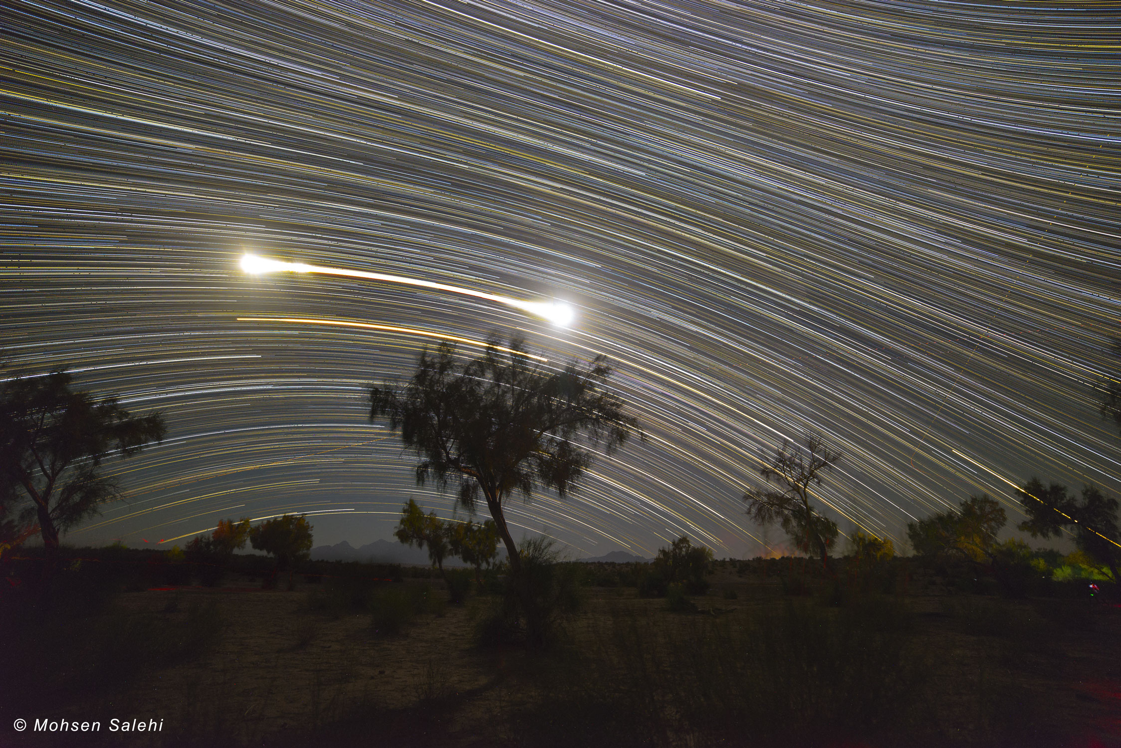 total moon eclipse trail